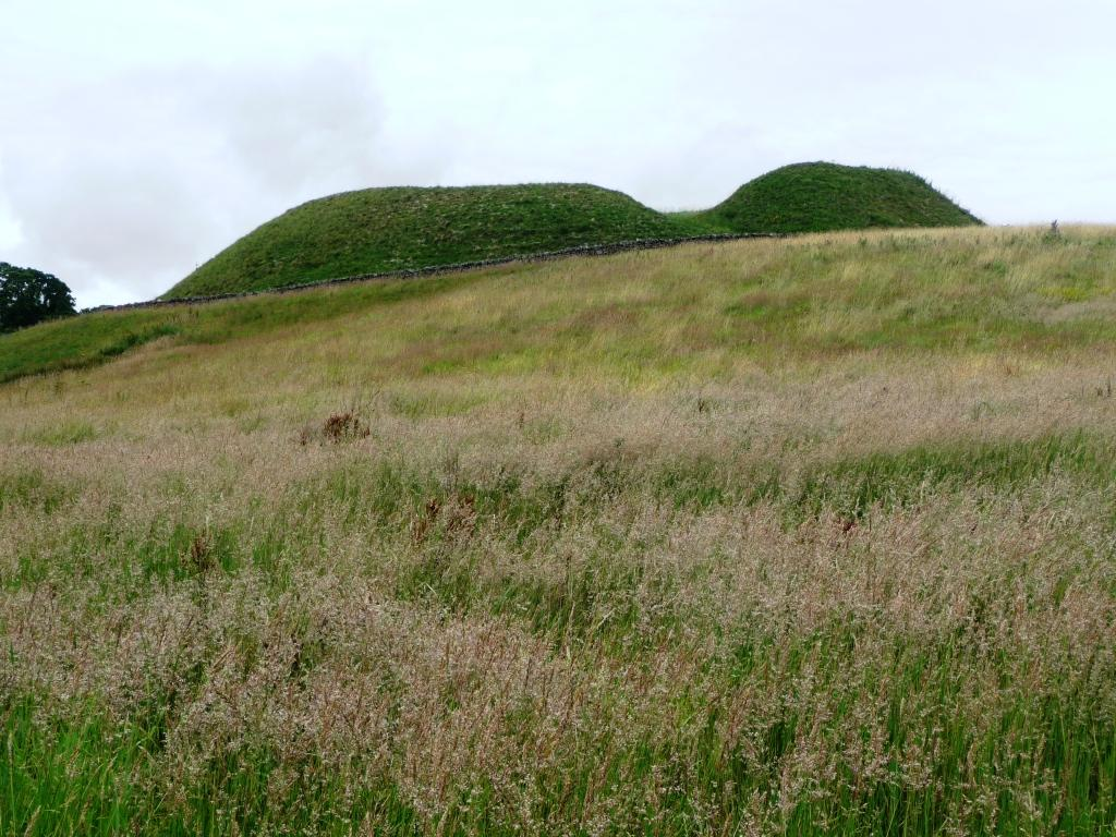 Motte and bailey, Elsdon